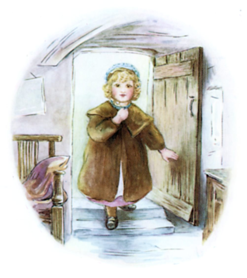 Lucie comes into Mrs. Tiggy-Winkle's kitchen, from The Tale of Mrs. Tiggy-Winkle